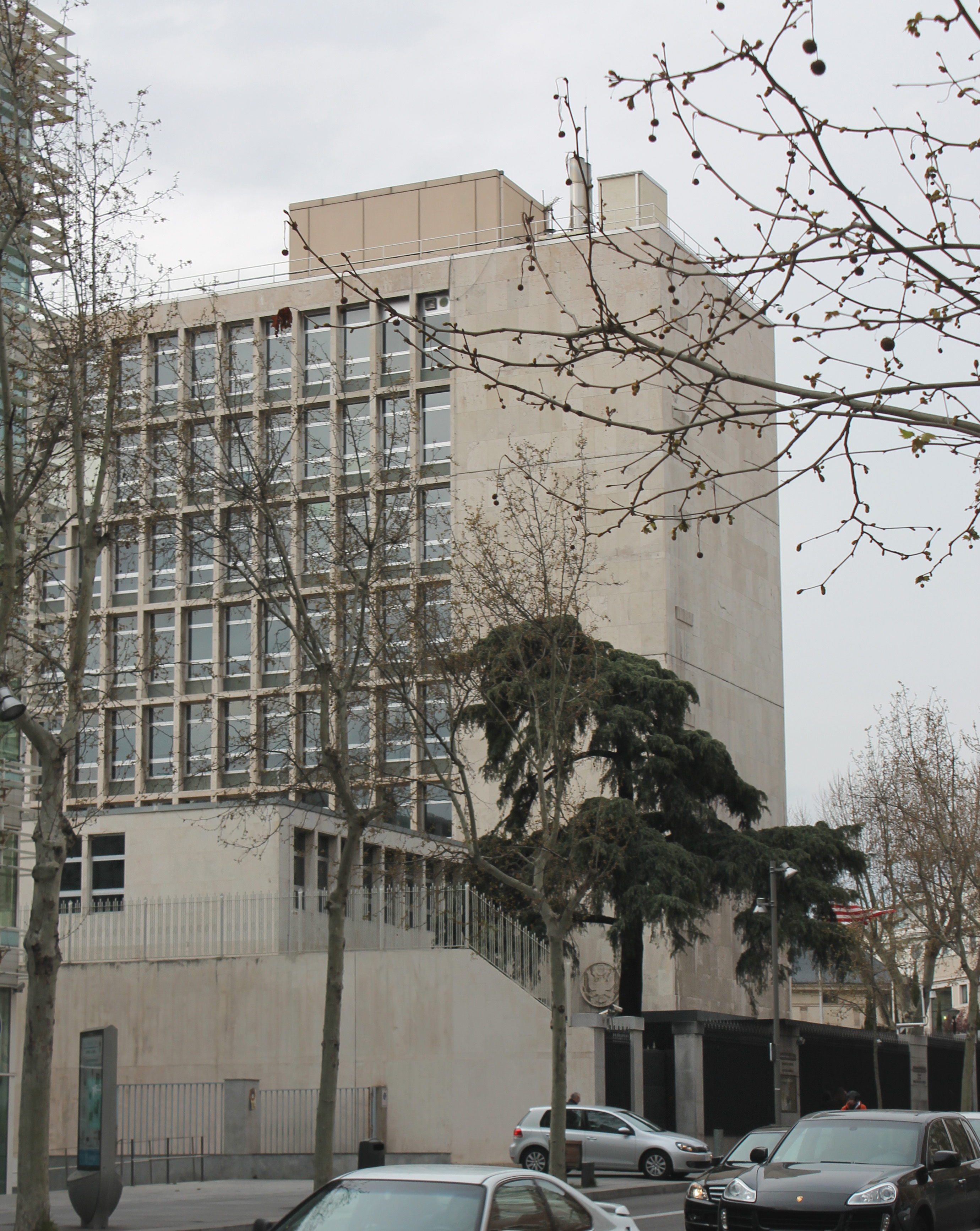 Façade of the U.S. Embassy in Madrid (Spain).